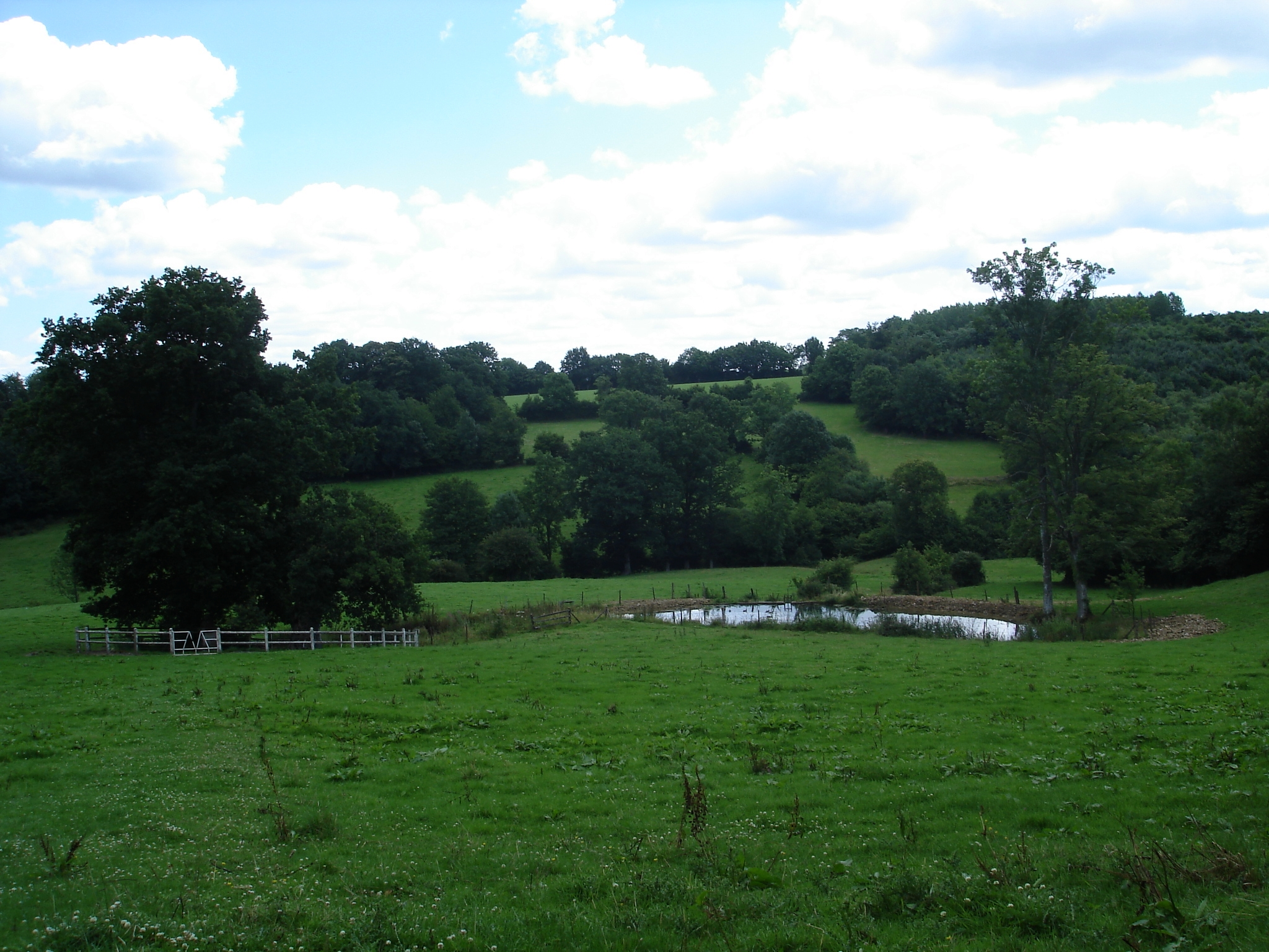 General view of the miraculous source of Saint-Méen, which cures skin deseases. The source is located in the middle of a meadow. The sore must be cleaned with a tissue soaked with water, and requests must be addressed to Saint-Méen. The tissue is then hung to the thousand old oak.